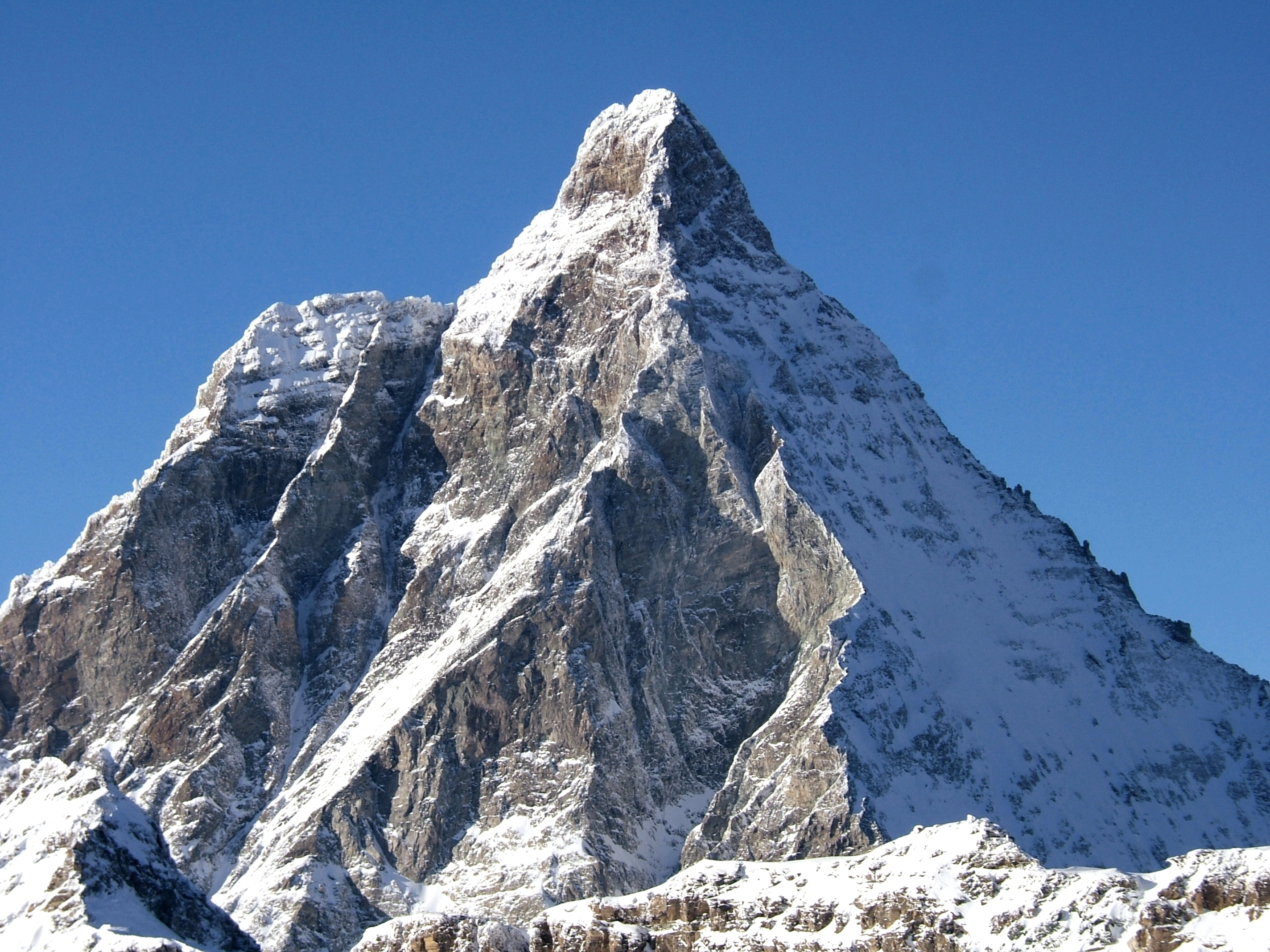 The south and east face of the Matterhorn